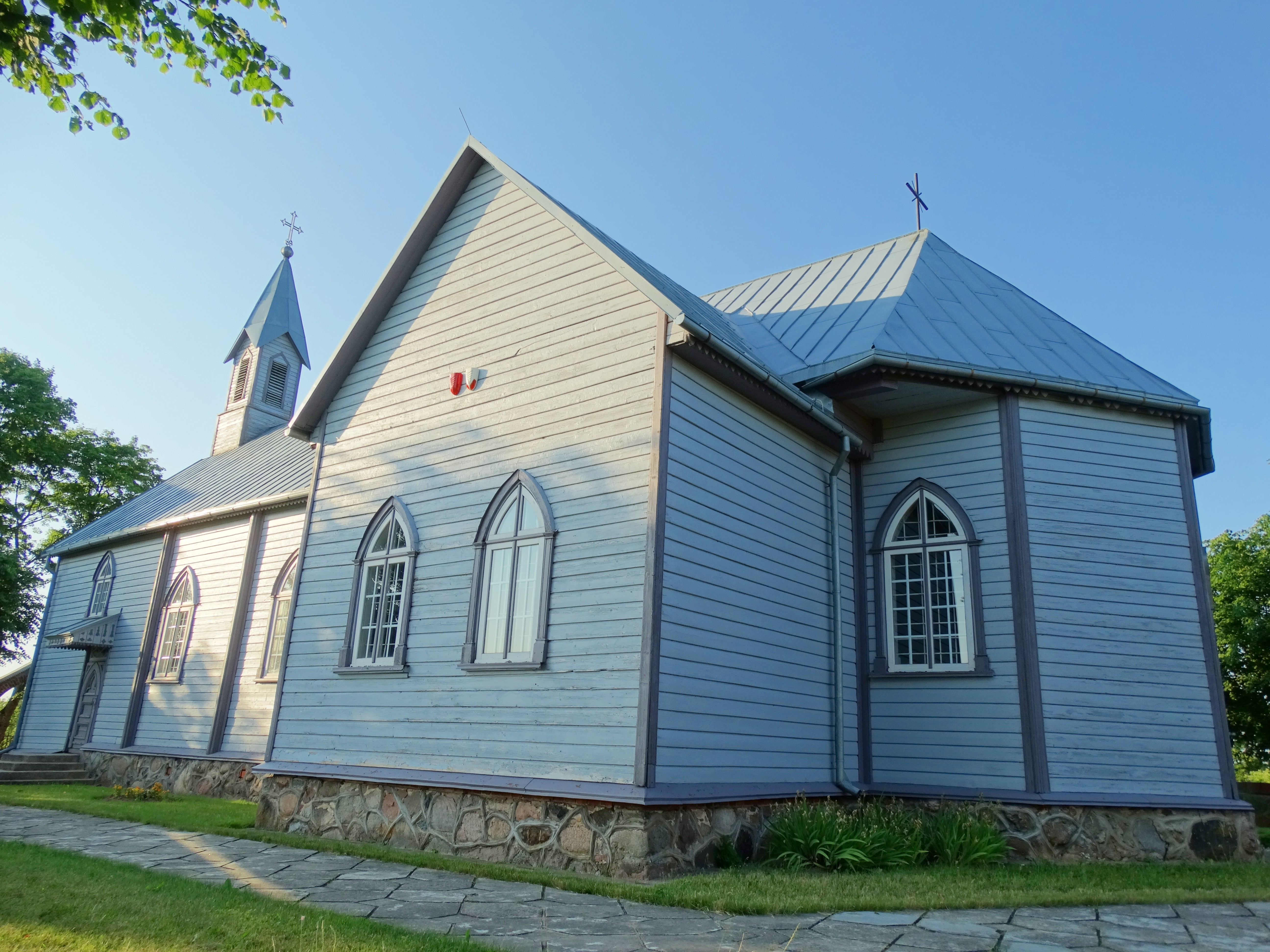 Roman Catholic Church, Viešvėnai, Telšiai District, Lithuania